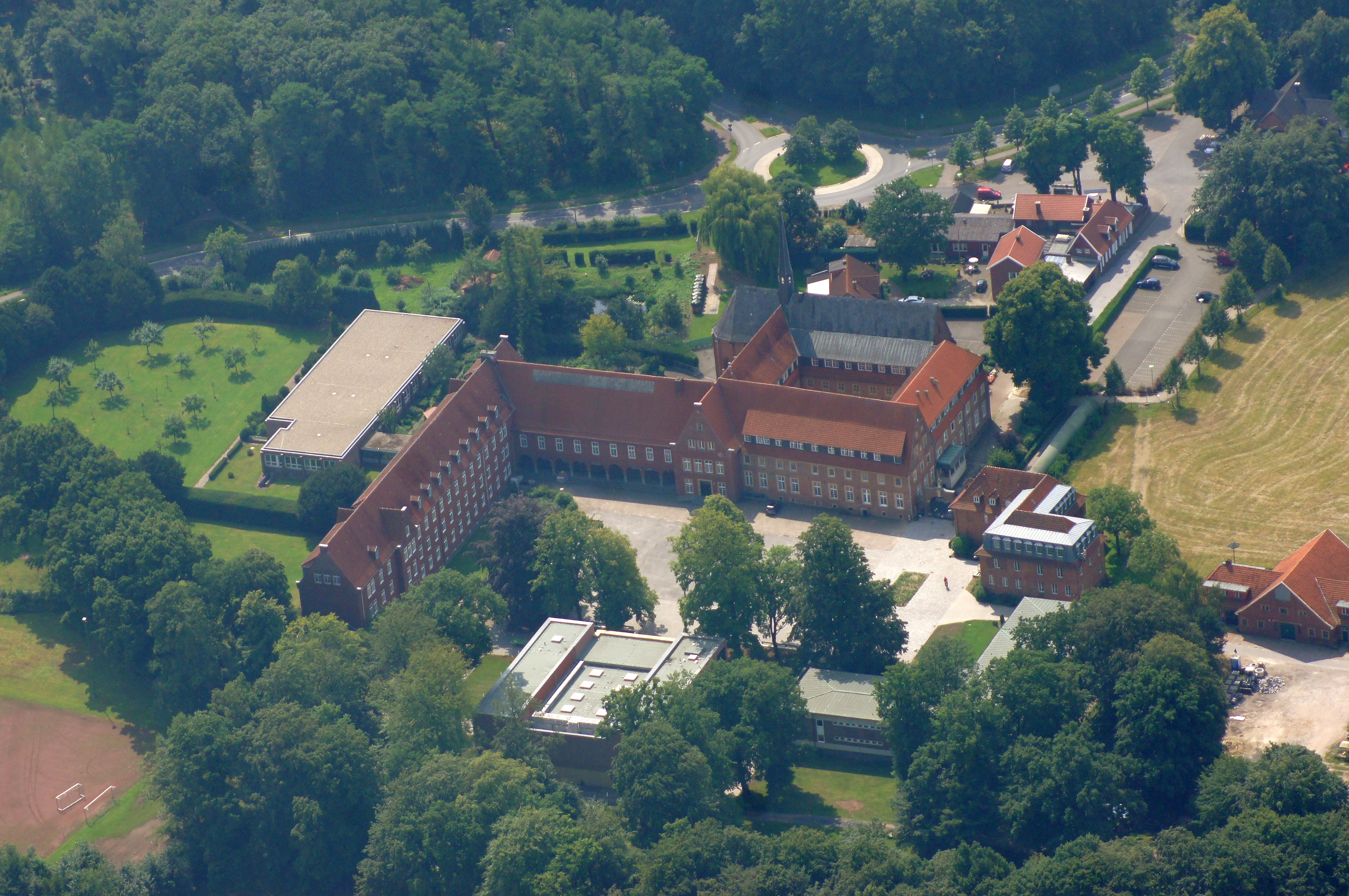 The monastery Mariengarden and the church St. Marien in Burlo, city of Borken, North Rhine-Westphalia, Germany.